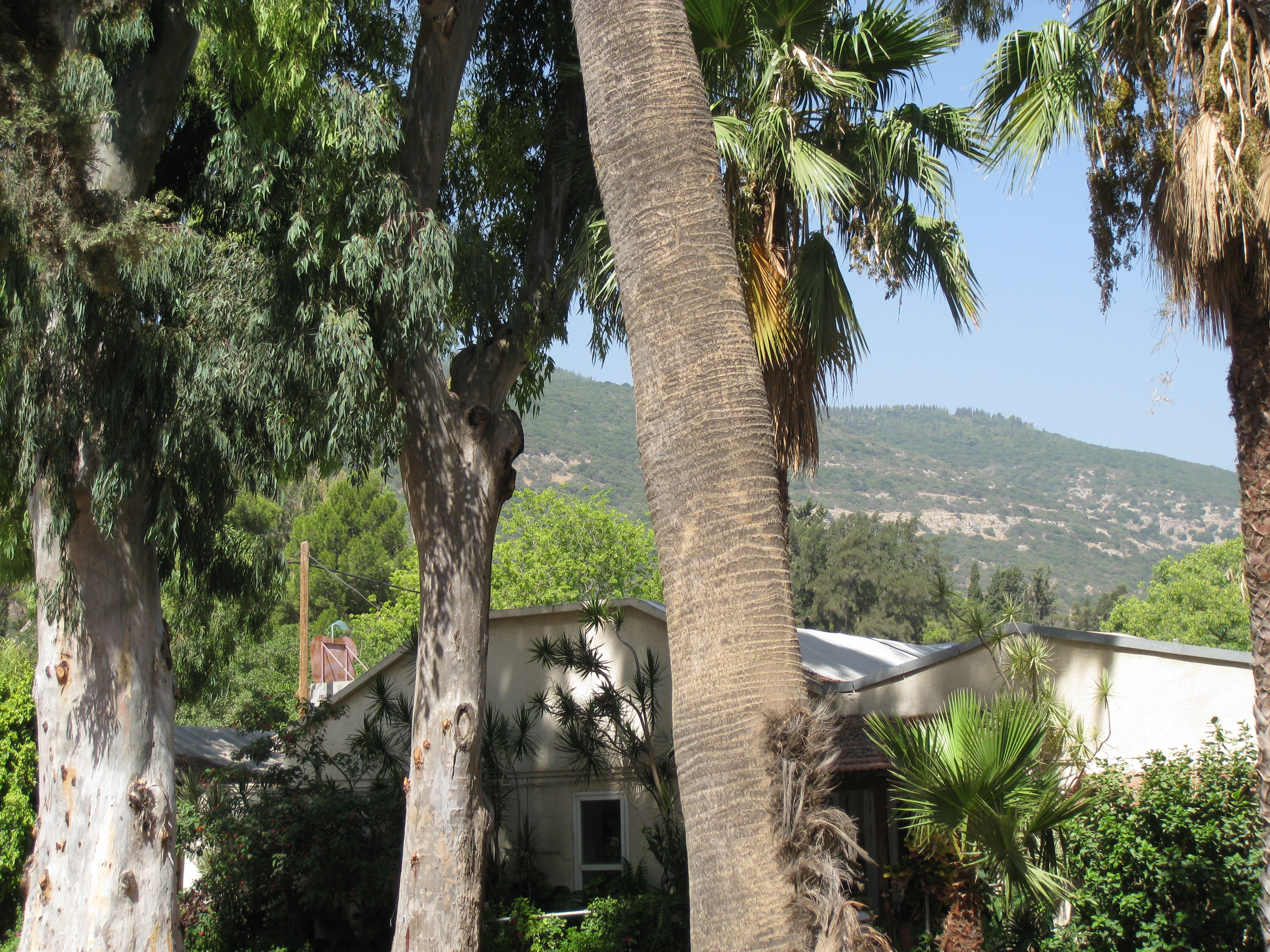 Kibutz Yagur